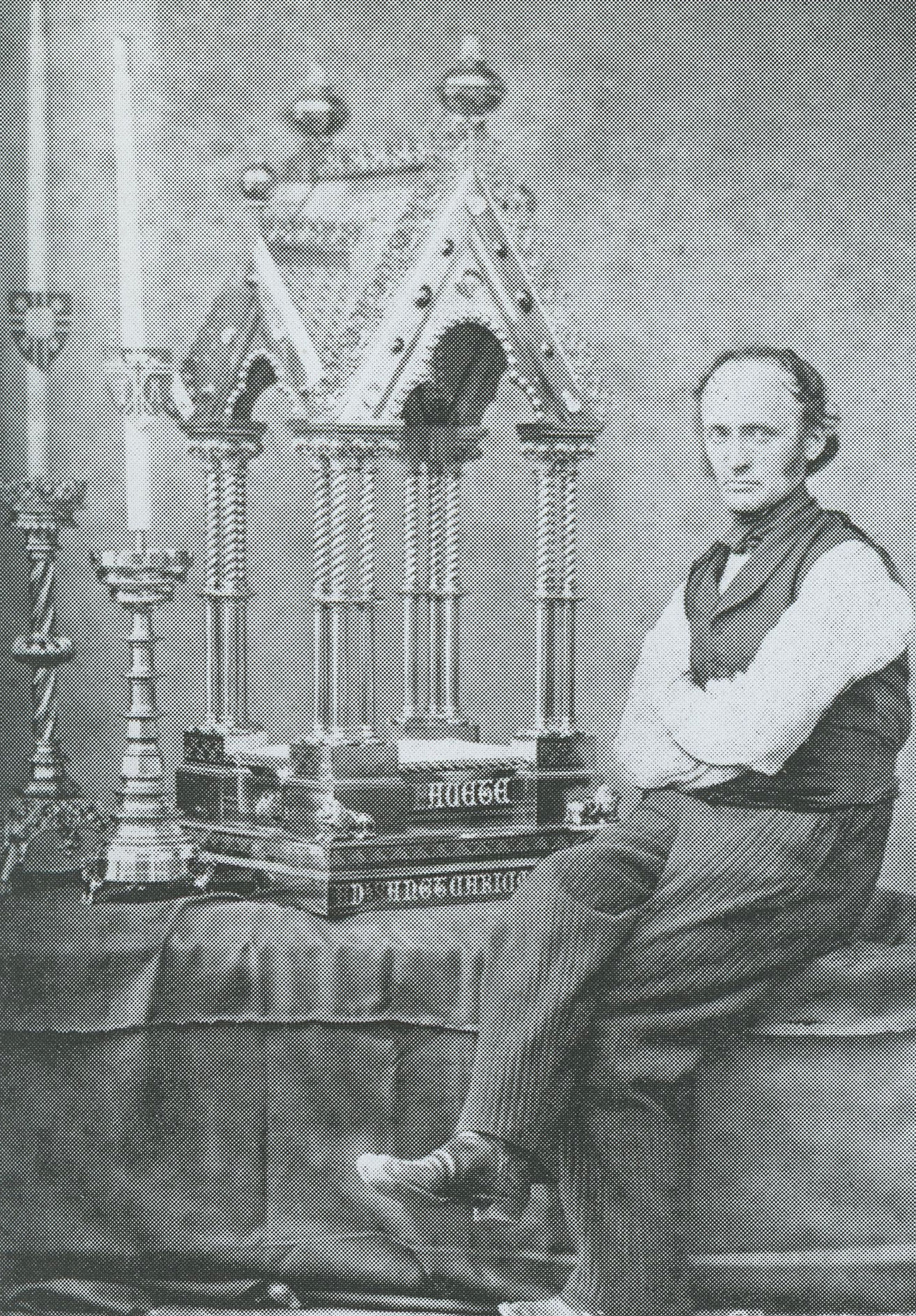 Gerard Bartel Brom (1831-1882)